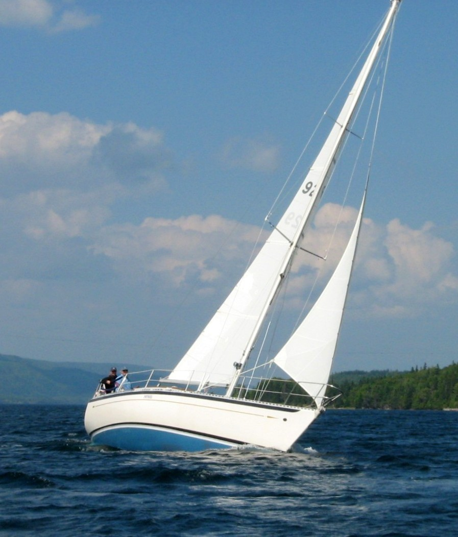 This is the Paceship Chance 32-28 Petrel on the Bras d'Or Lake.